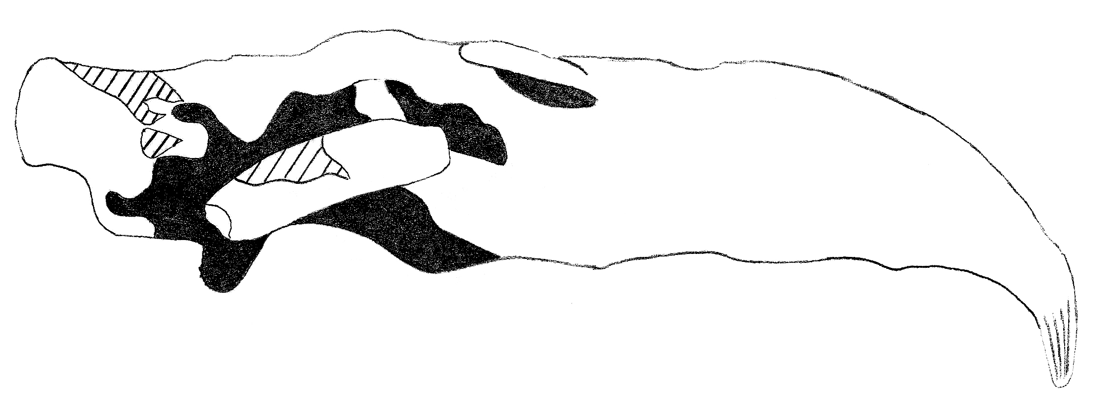 sketch of the skull of kelenken (right side), based on a similar sketch in "A NEW PHORUSRHACID (AVES: CARIAMAE) FROM THE MIDDLE MIOCENE OF PATAGONIA, ARGENTINA"; hatched parts are missing in the fossil